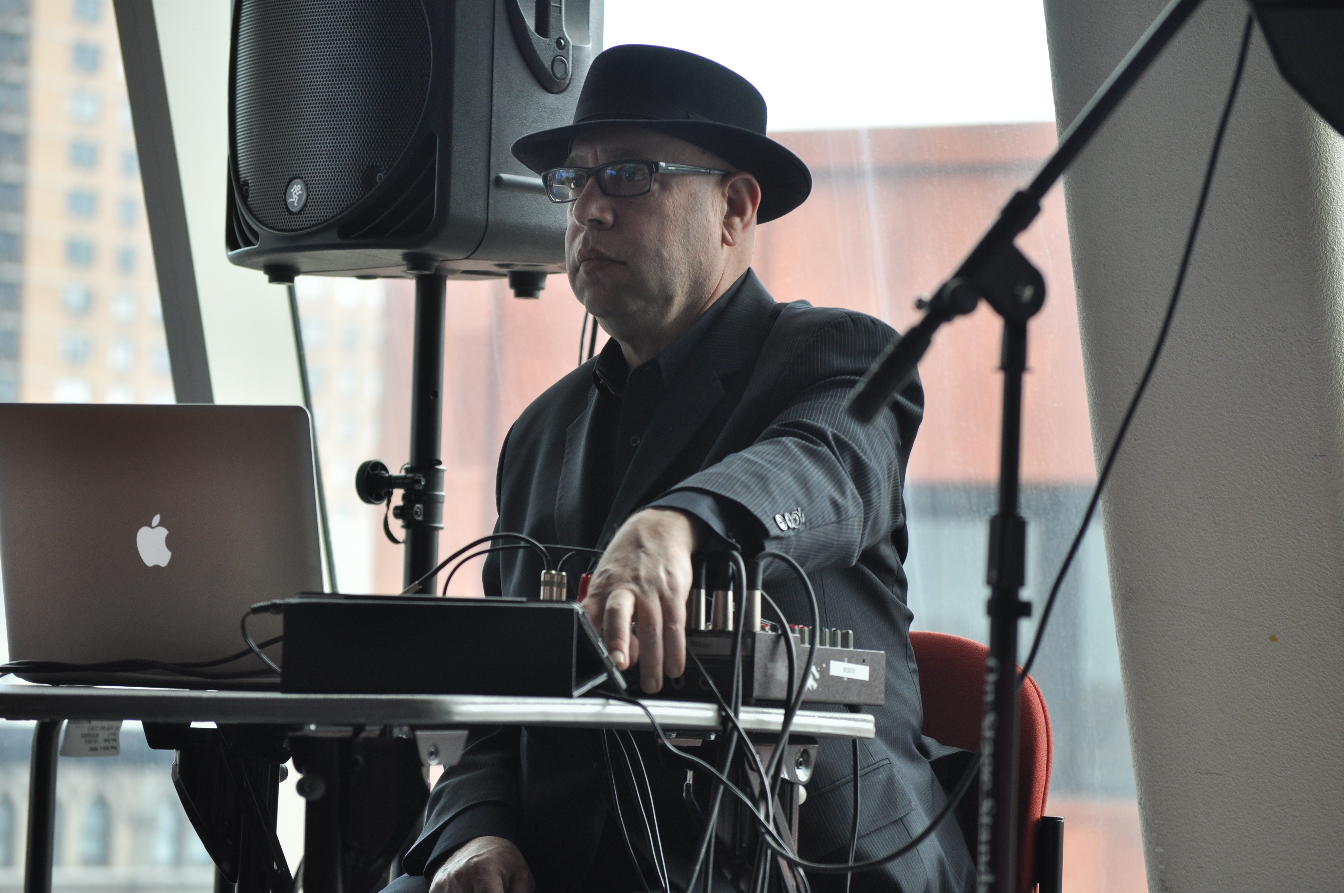 Composer Peter Gordon performing a selection from Vidas Perfectas (a new Spanish translation of Robert Ashley's 1983 Perfect Lives) at the 2012 Pop Conference, at NYU.